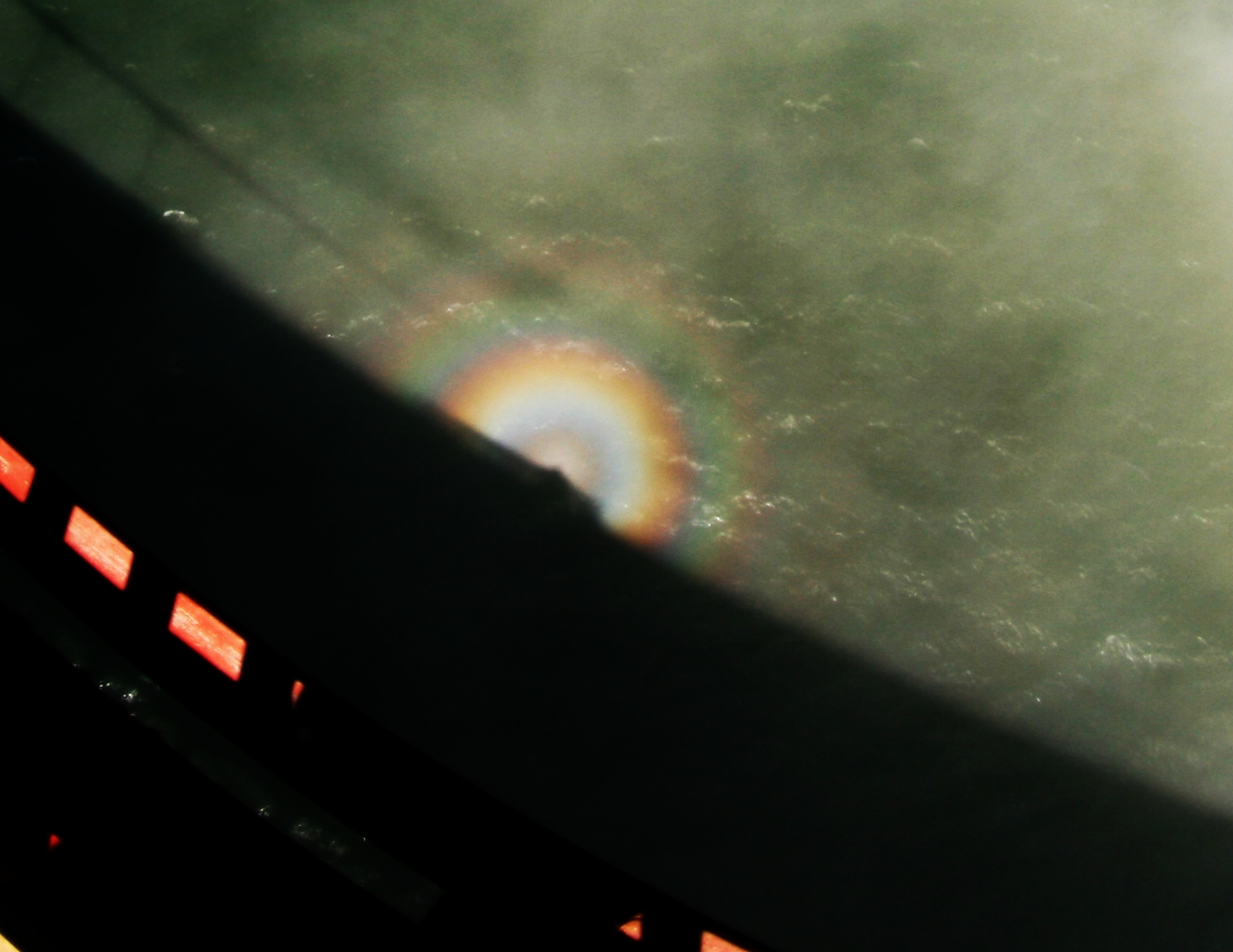 The picture was taken from Golden Gate Bridge. The picture shows solar glory. The Spectre of the Brocken was also present, but it is hard to see because of the shadow of the Bridge.